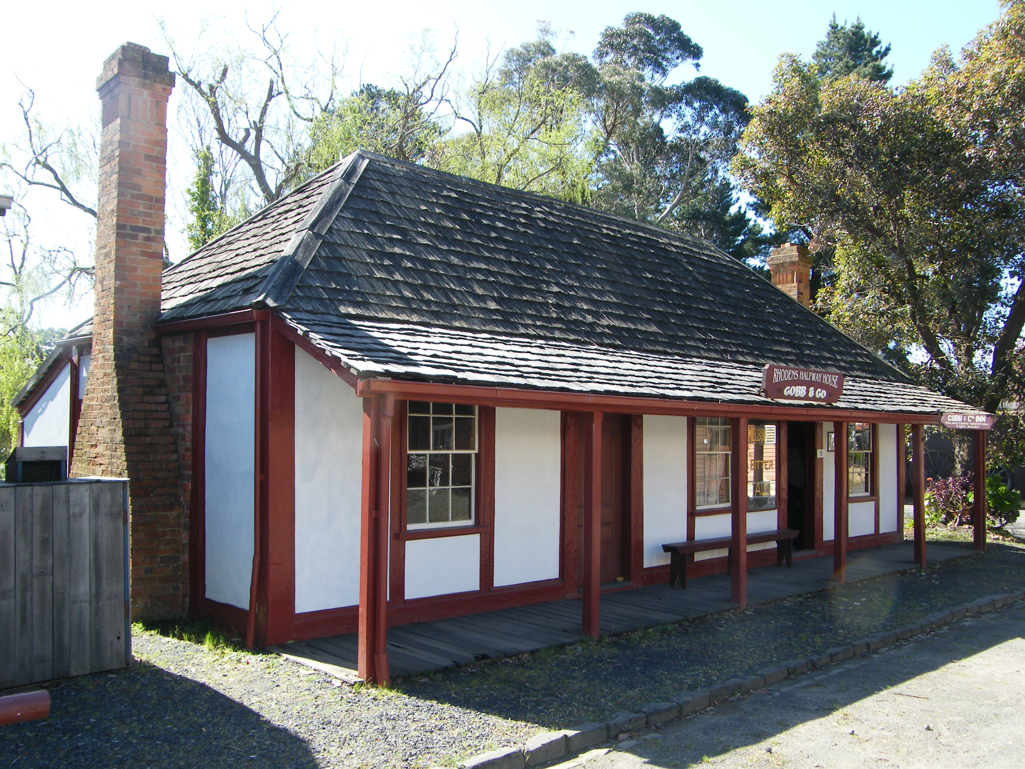 Built for the Cobb and Co route between Gippsland and Melbourne, Australia. Built by David O'Connor near Pakenham in 1863. It is now located at Old Gippstown in Moe